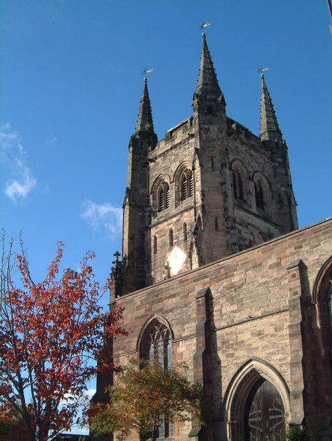 West tower of St Editha's parish church, Church Street, Tamworth, Staffordshire, seen from the southeast